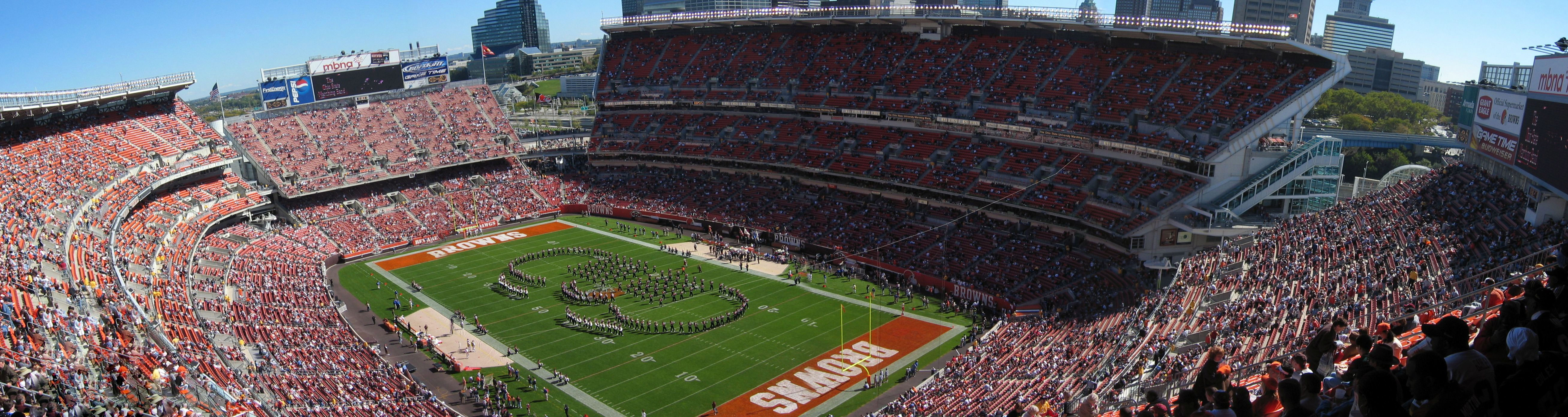 The Cleveland Browns in an July 2006 game in Cleveland Browns Stadium.